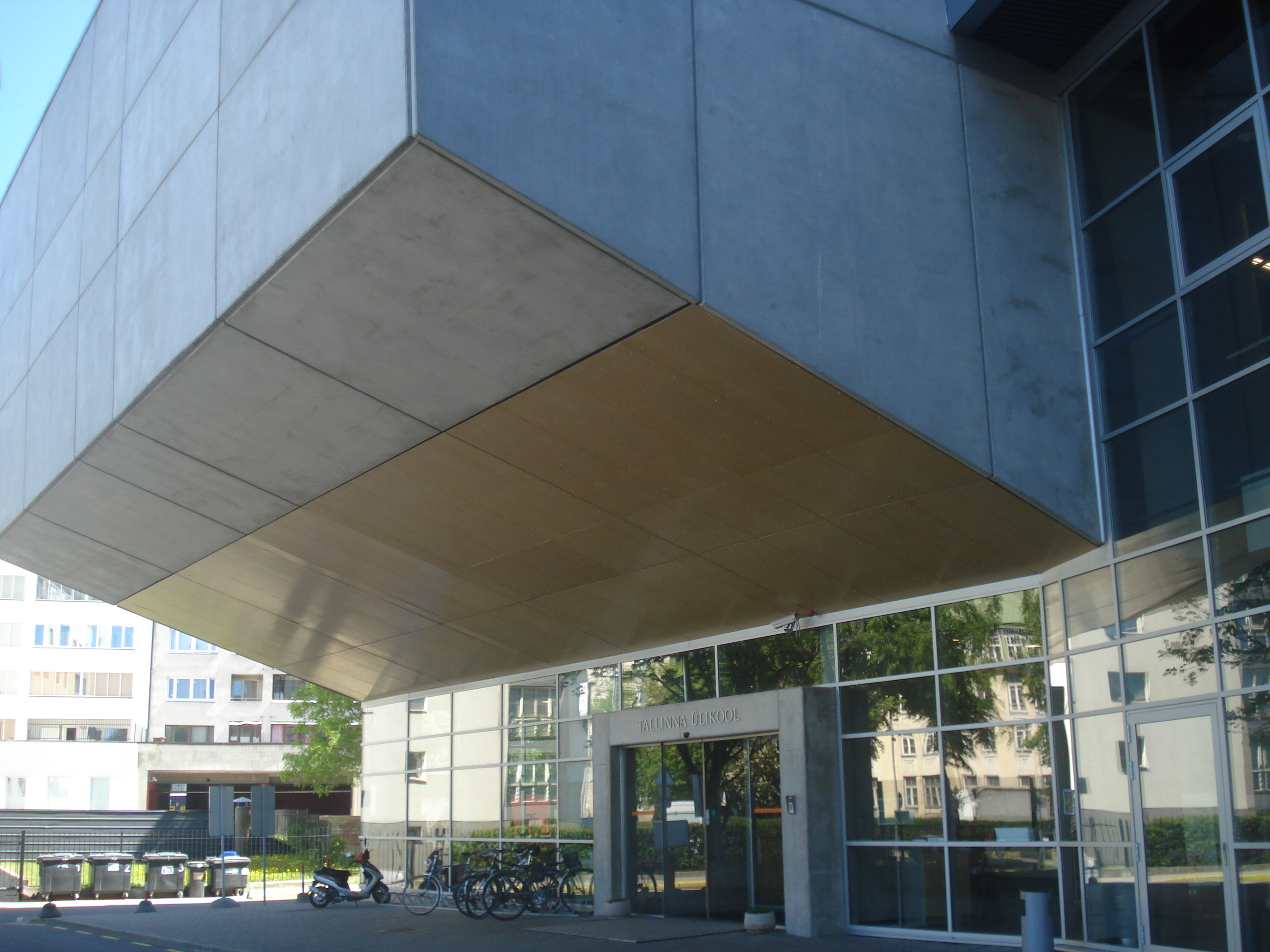 Tallinn University. Mare building, Uus-Sadama 5. Entrance